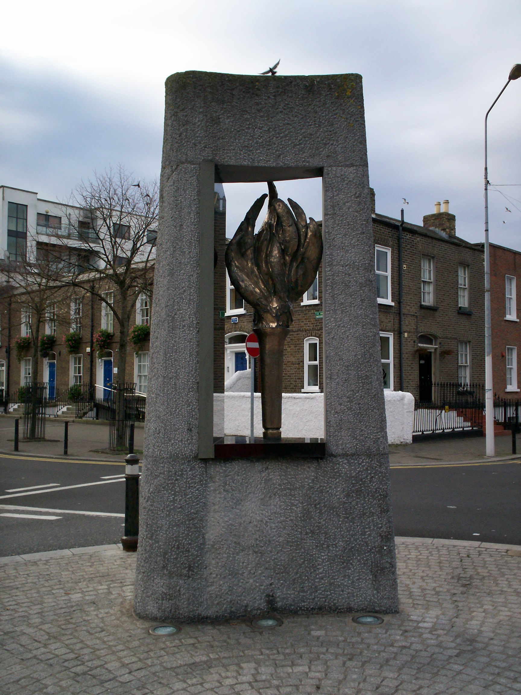 Sculpture commemorates those who have lost their lives in the area due to drug abuse. Erected in 2000. Sculptor Leo Higgins